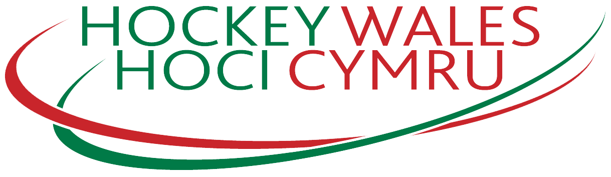 The logo of Hockey Wales